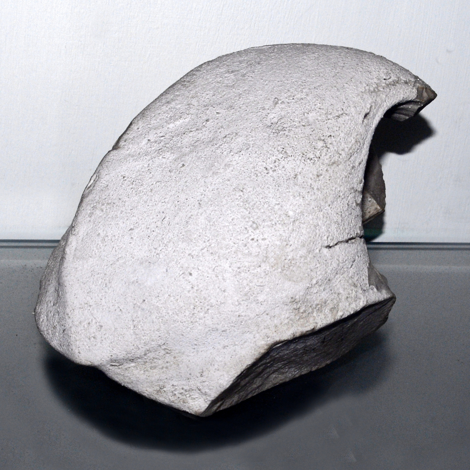 Fossil shell of Neomegalodon from Triassic of Italy, on display at Museo Geologico G. Cappellini, Bologna